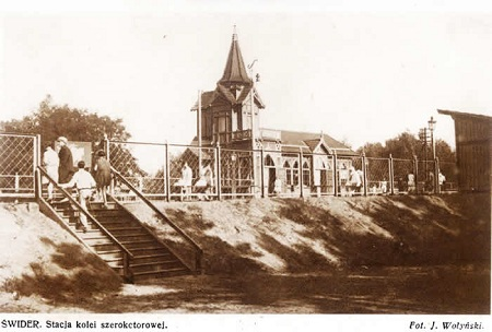 Świder station.